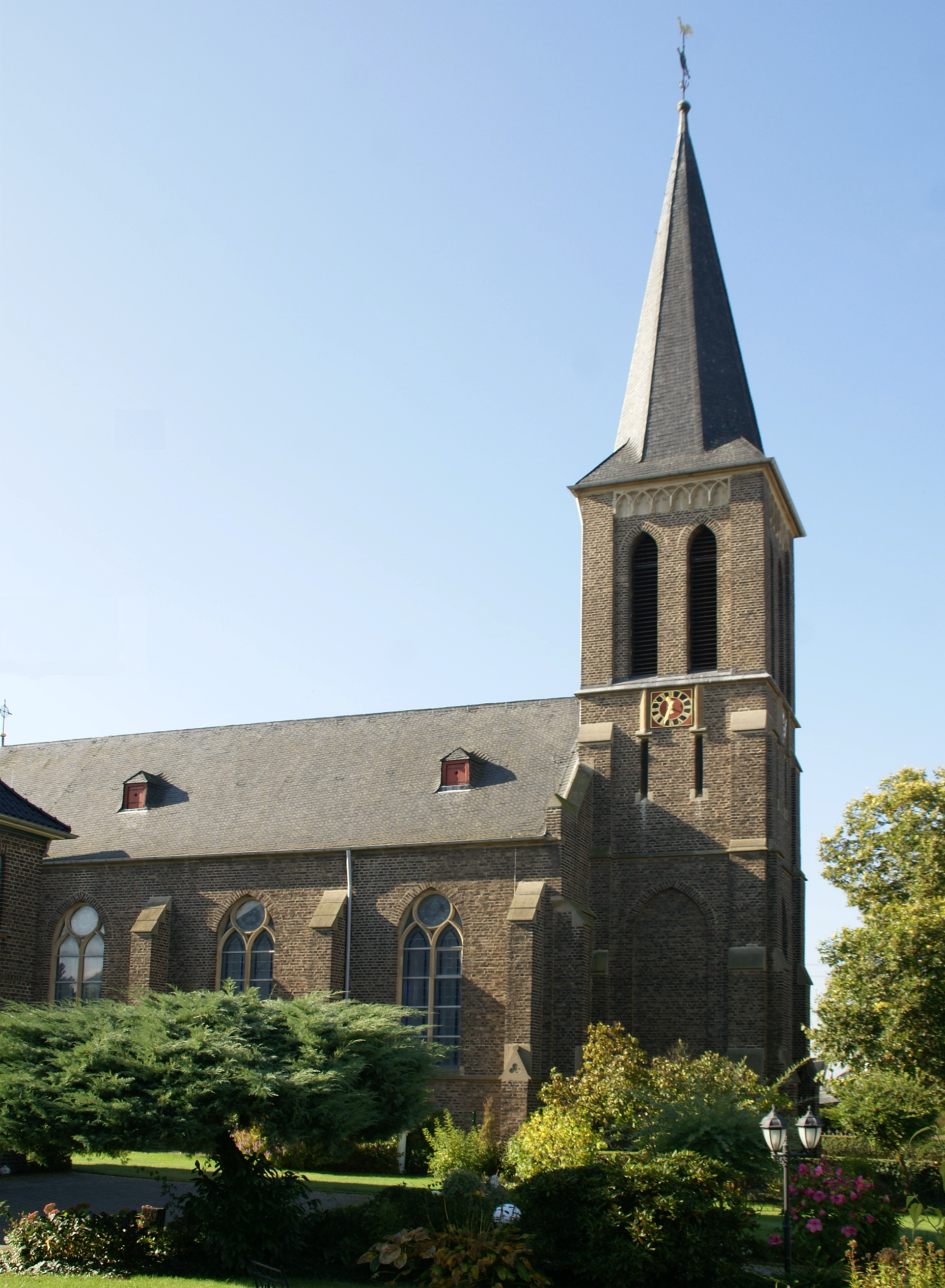 The catholic parish church St. Antonius in Straßfeld, Antoniusstraße